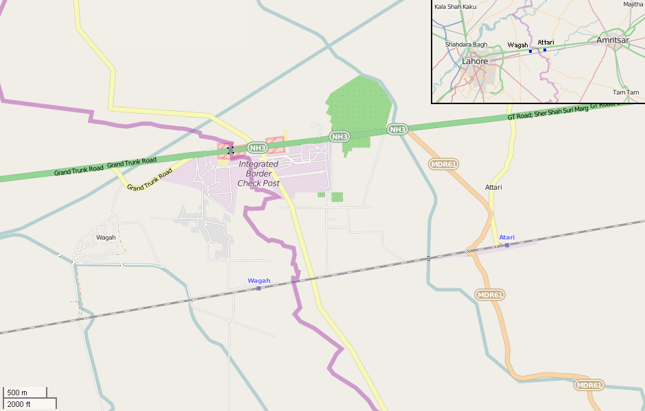 This map may be incomplete, and may contain errors. Don't rely solely on it for navigation.